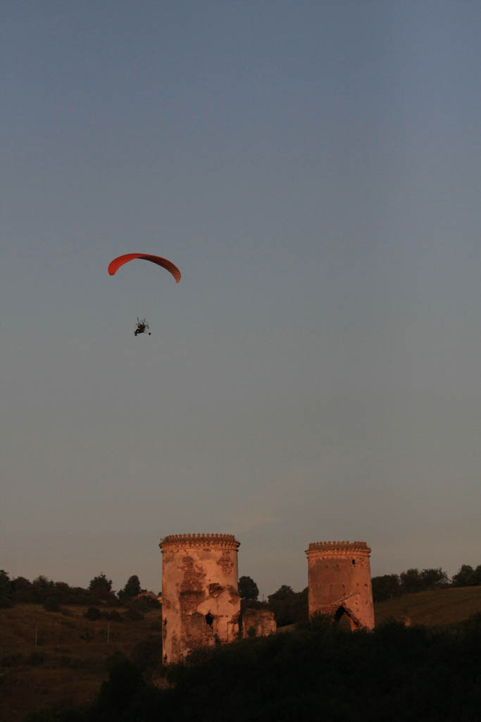 2nd Ukrainian Scout Jamboree 2009. Paragliding activity.